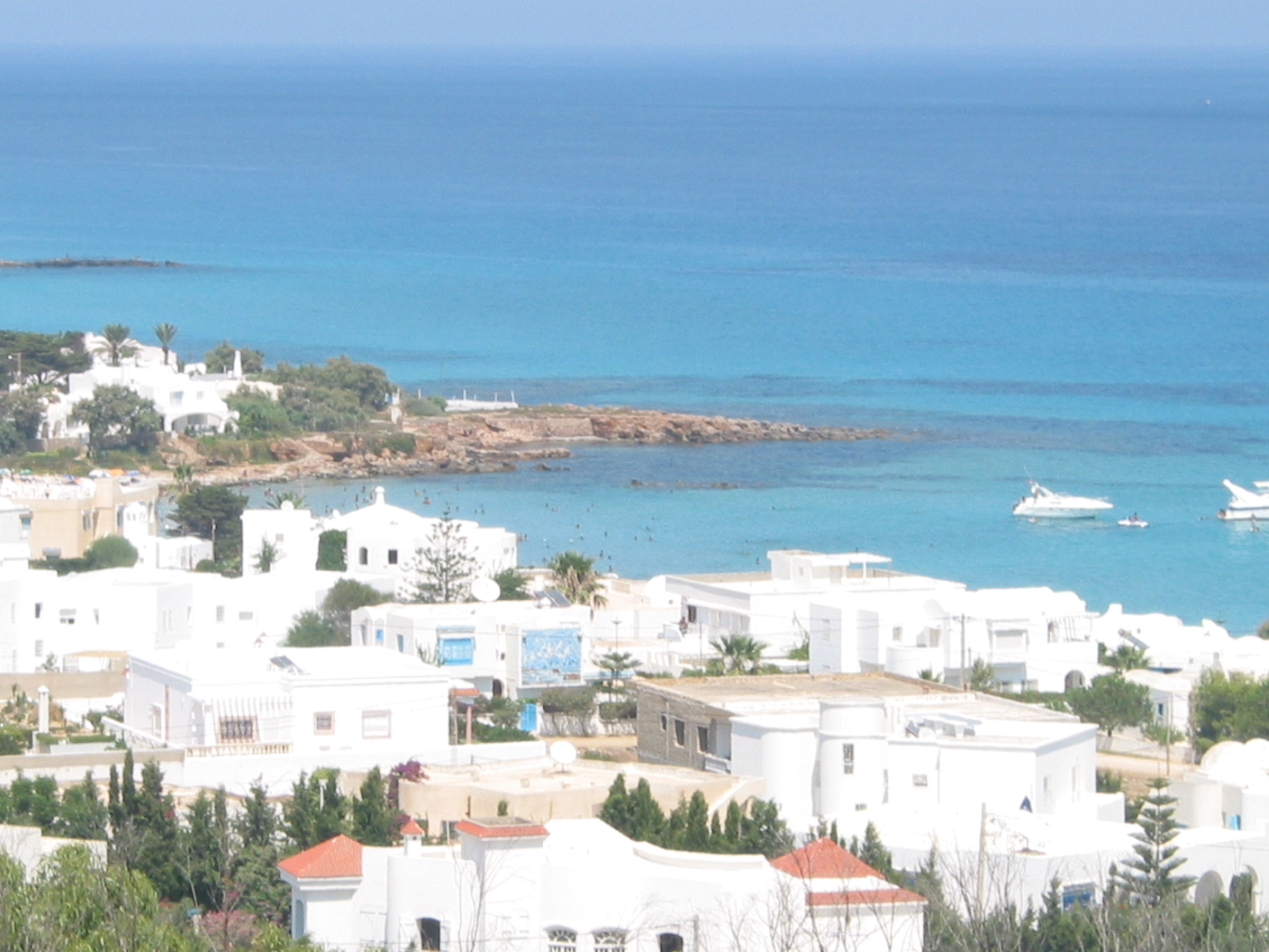 Kelibia, a town on the north-eastern coast of Cap Bon, in Nabeul, Tunisia